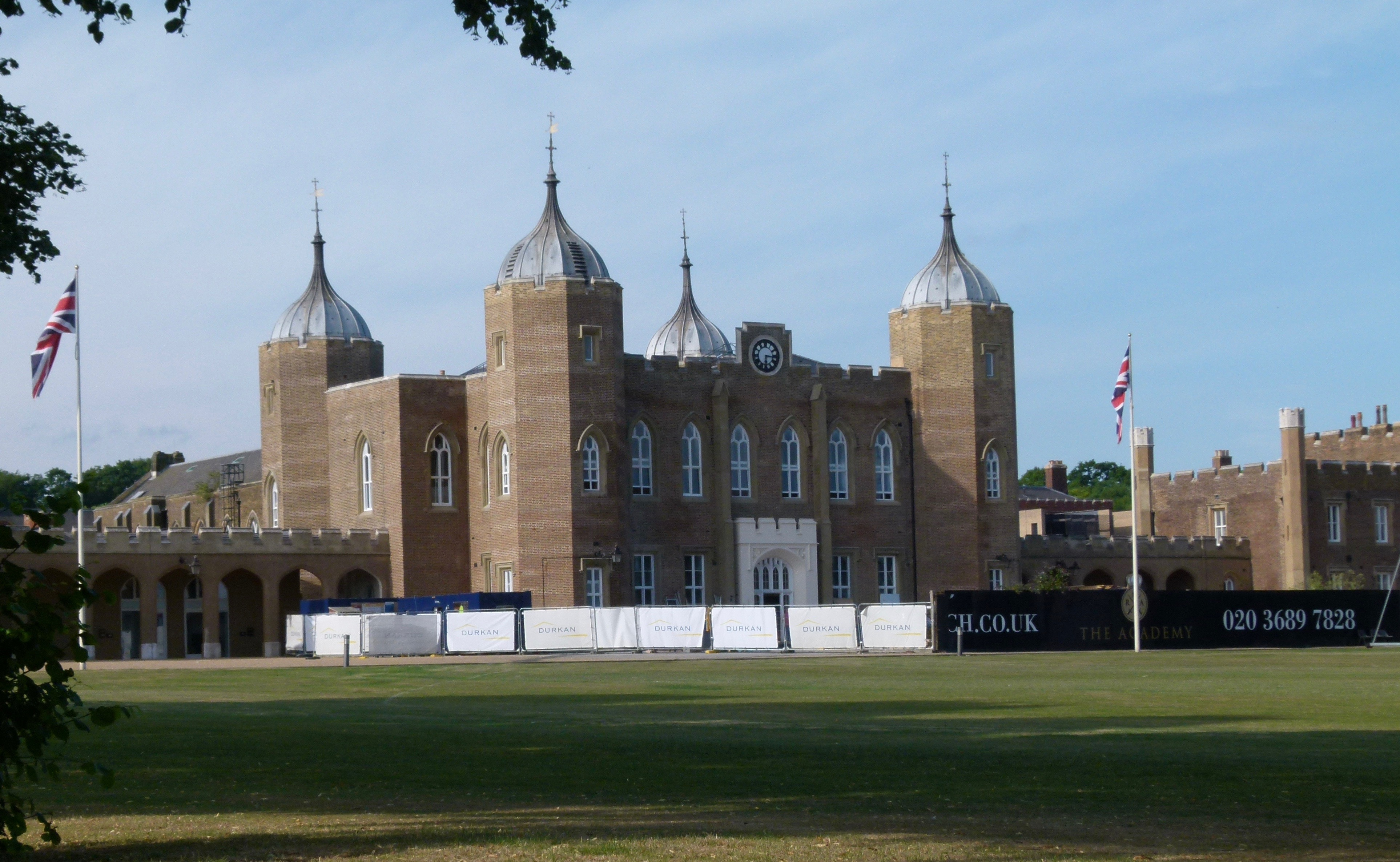 View of the former Royal Military Academy in Woolwich, Southeast London, UK.